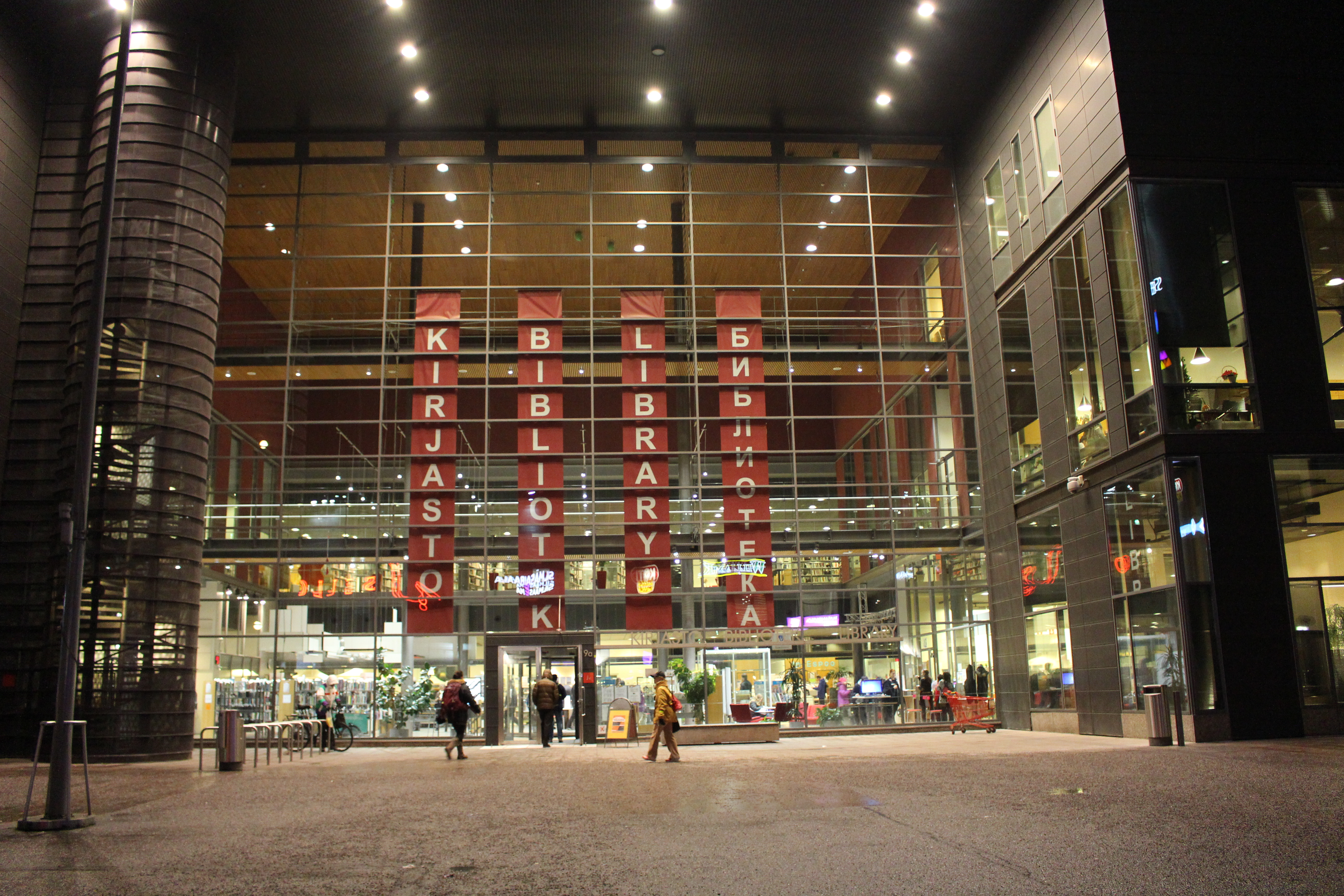 Sello Library in Espoo, Finland